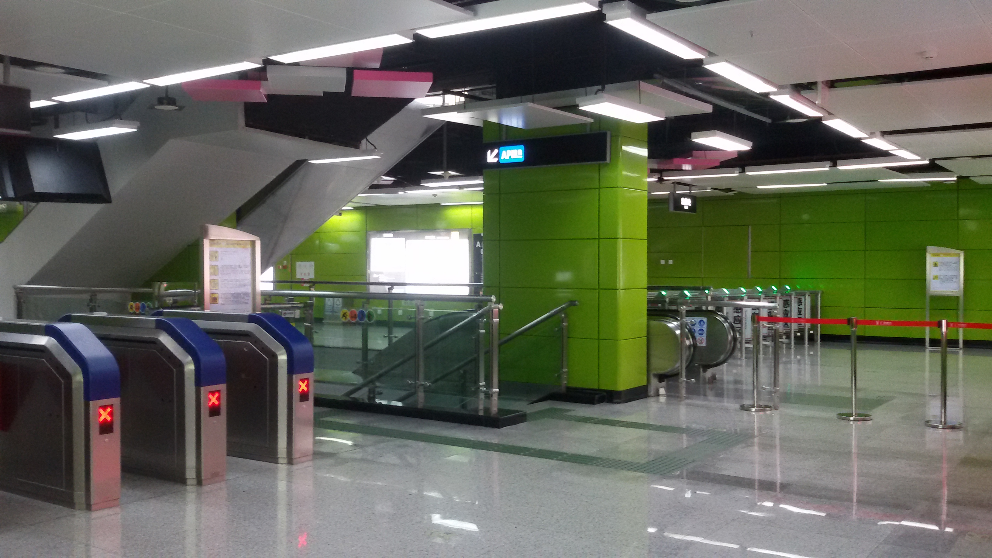 Station Concourse for Huangpu Dadao Station in Guangzhou Metro. 粵語: 廣州地鐵，黃埔大道站嘅站廳。